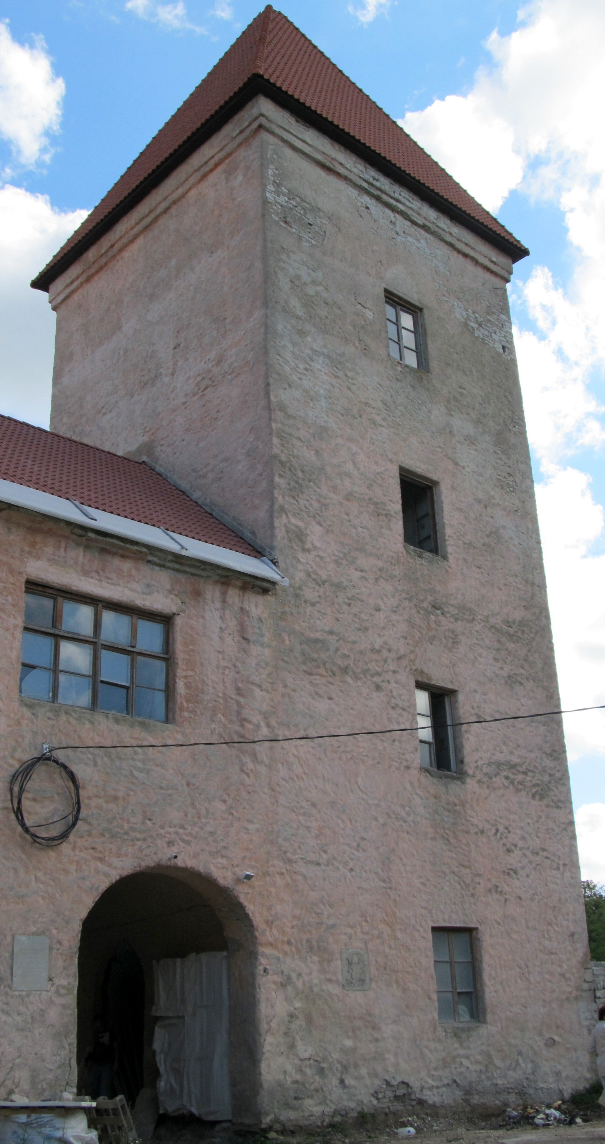 Gate tower of Koluvere castle